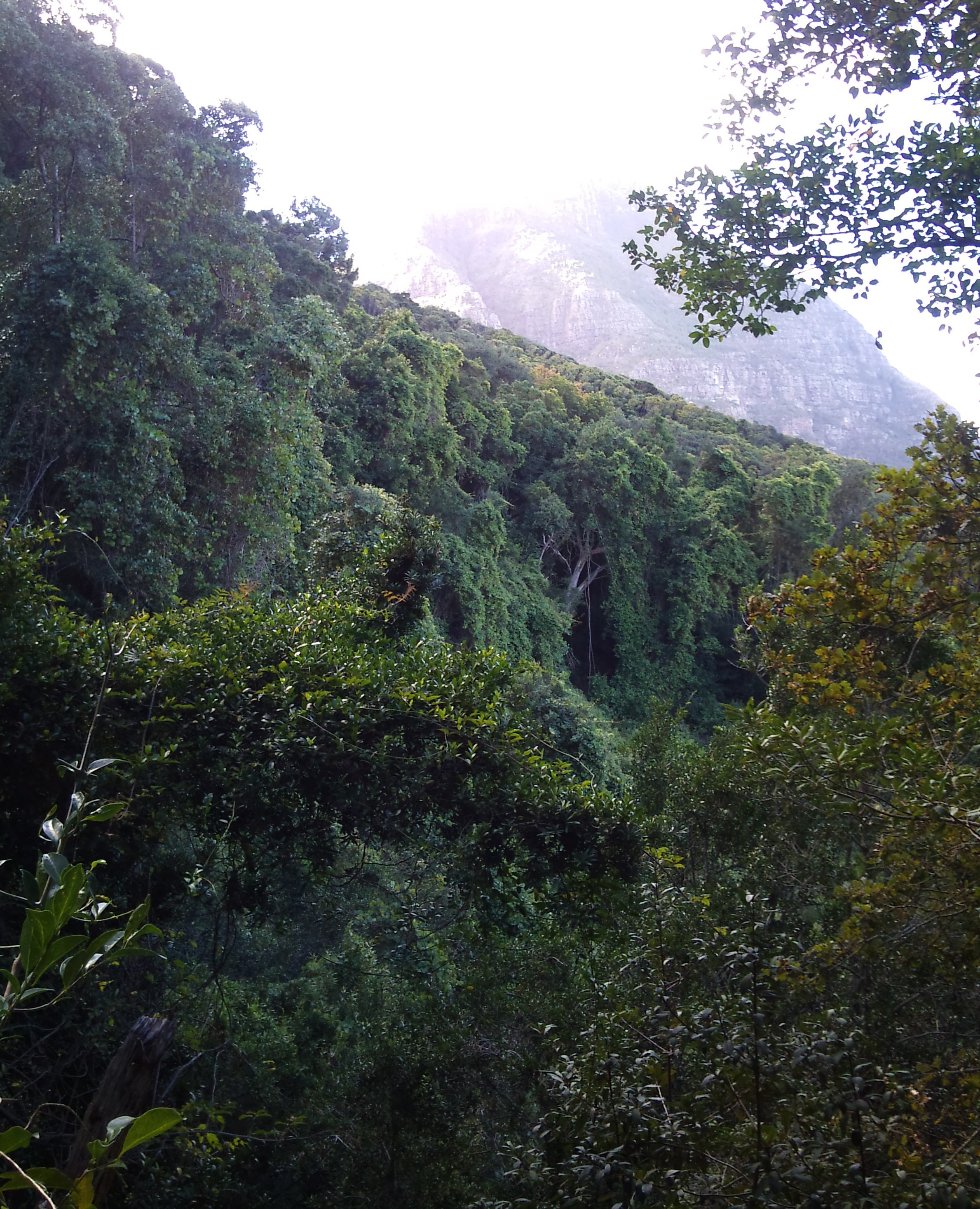 View over indigenous forests of Devils Peak. Cape Town.